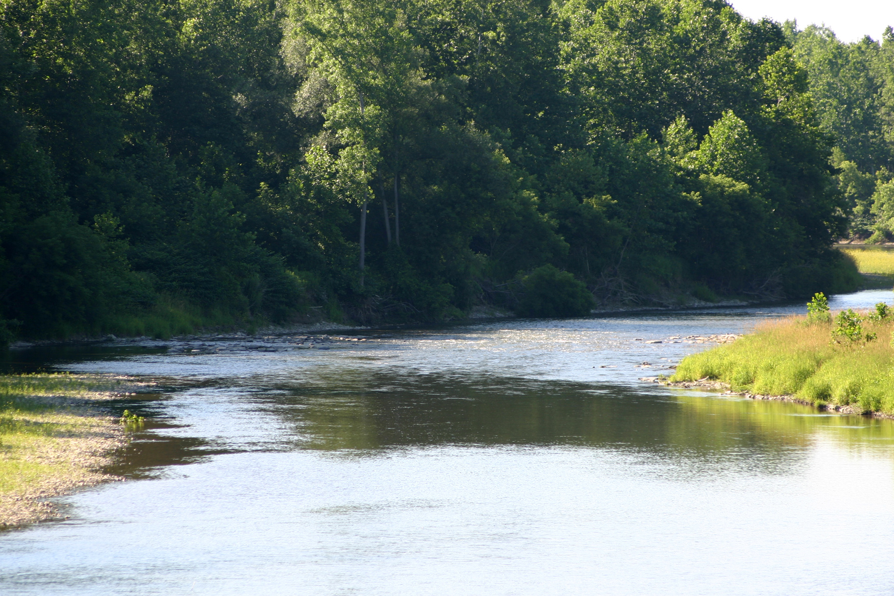 Upper Genesee River near Belmont Image copyleft: Image taken by me, released under GFDL Pollinator 03:55, Nov 9, 2004 (UTC)